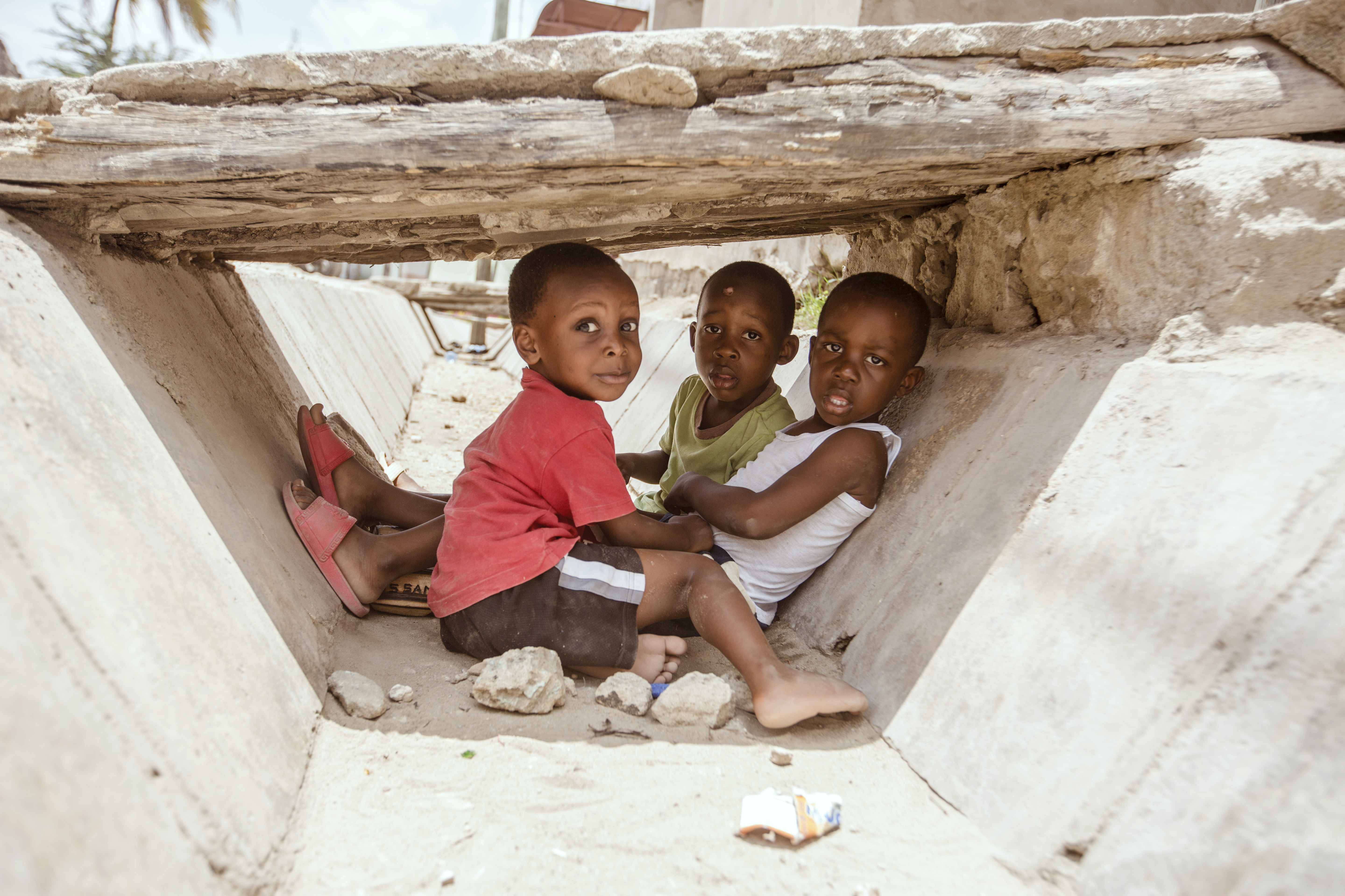 Kombolela is a very popular game in Tanzanian communities especially with children aged 6 to 14, the game is played for people to hide and one to find them when they hide. Kiswahili: Kombolela ni mchezo unaochezwa sana katika jamii za watanzania hasahasa na watoto wenye umri wa miaka 6- 14, mchezo huu huchezwa kwa watu kujificha na mmoja kuwatafuta walipo jificha. This is an image with the theme "Play" from: Tanzania